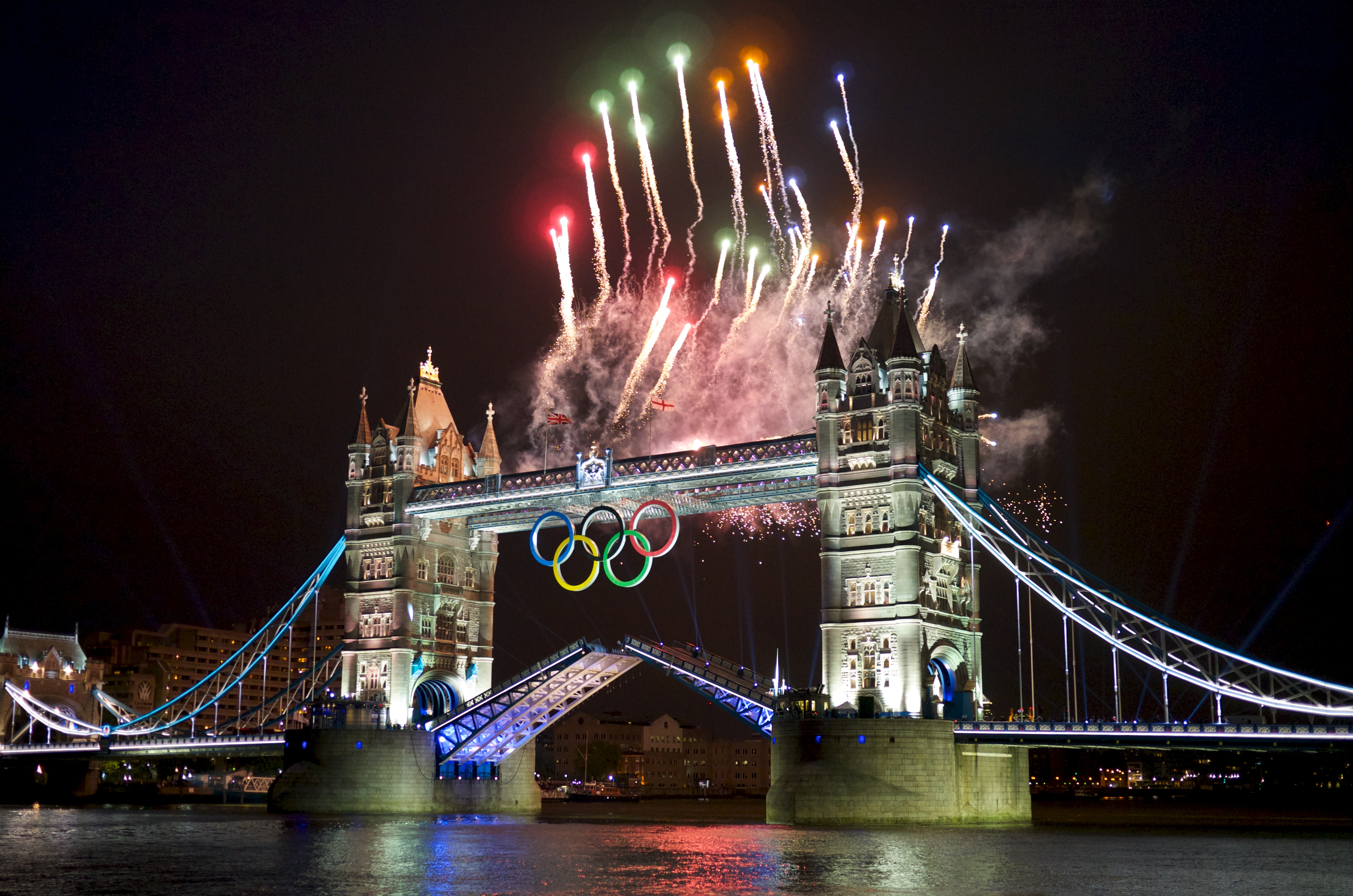 Fireworks over Tower Bridge at the opening ceremony for the 2012 Summer Olympics